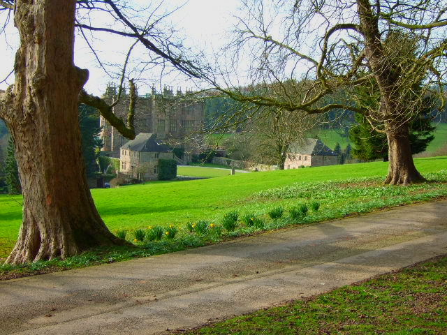 Wooton Lodge Taken from the footpath running past up to Parkgate